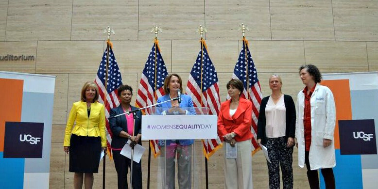 On the 96th anniversary of the 19th Amendment to the Constitution, when women won the right to vote, Congresswomen Nancy Pelosi, Anna Eshoo, Barbara Lee, and Jackie Speier joined Bay Area community leaders at UCSF to reflect on the strides our nation has made towards women’s equality and rededicate ourselves to the important work left to be done. The right to vote guards all other rights – the right to choose, the right to life-saving research and the right to contraception and health care.